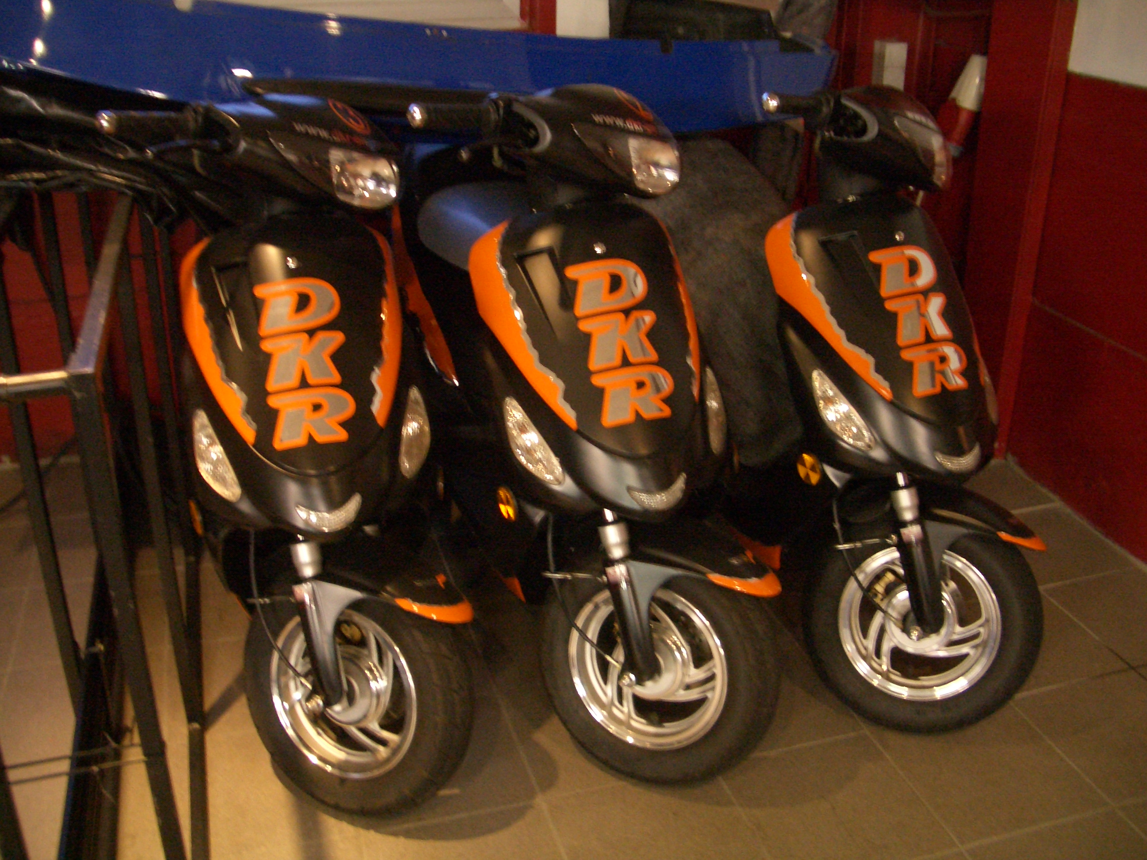 3 Scooters ; DKR Engineering